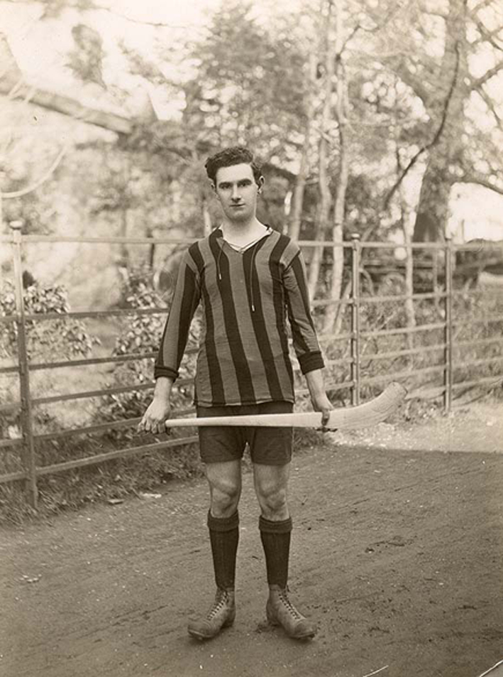 Kilkenny Hurler (circa 1923)